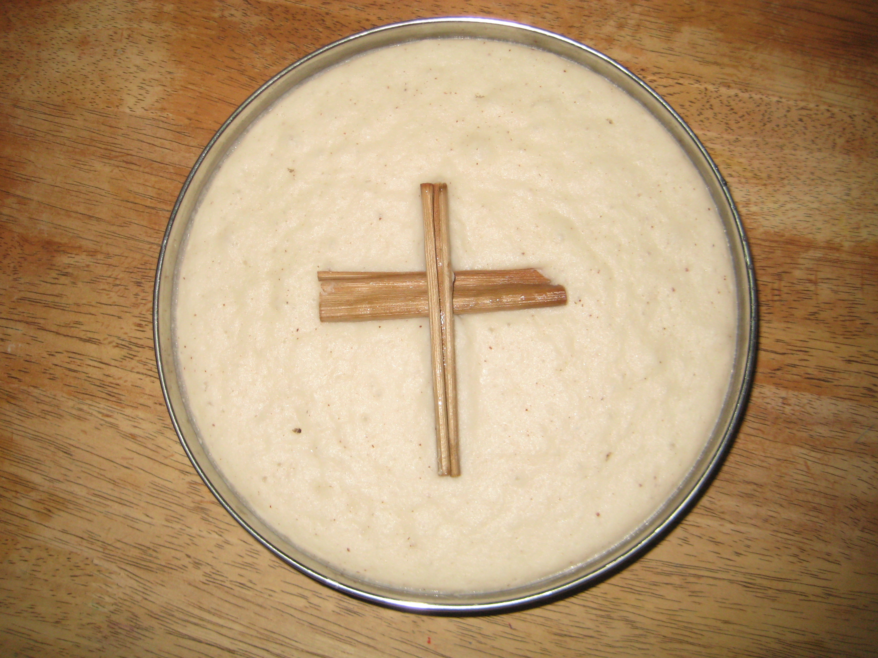 Pesaha Thursday, Maundy Thursday, Holy Thursday – the day when the Church commemorates the Last Supper of Jesus Christ with his disciples. In Kerala, Catholics follows tradition of Pesaha Appam and Pesaha Paalu in their houses, the whole family gathers in the dining hall, and the head of the family cuts the appam into pieces, dips in the prepared Pesaha paalu and then gives to other members, starting from the oldest.